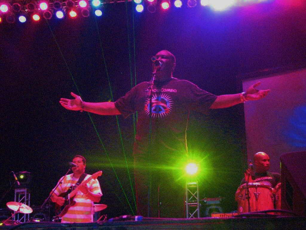 Tabou Combo performing live at the Jacmel Music Festival.